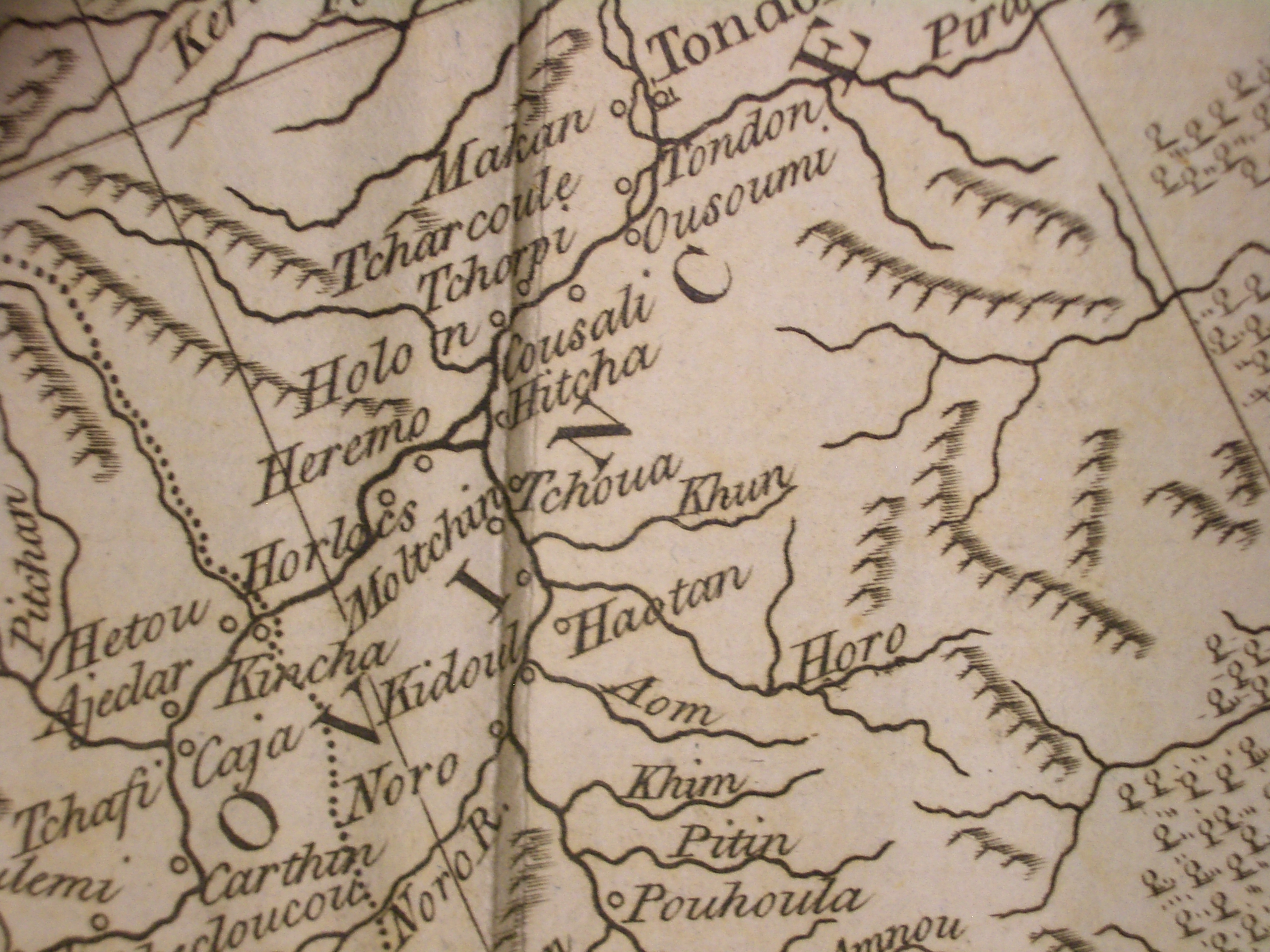 A fragment of the map of Russian Empire (pages 21-22; also includes sections of adjacent states), said to be based on d'Anville's work, in Thomas Kithen's "Atlas describing the Whole Universe"